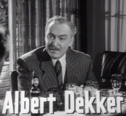 Cropped screenshot of Albert Dekker from the trailer for the film Gentleman's Agreement.